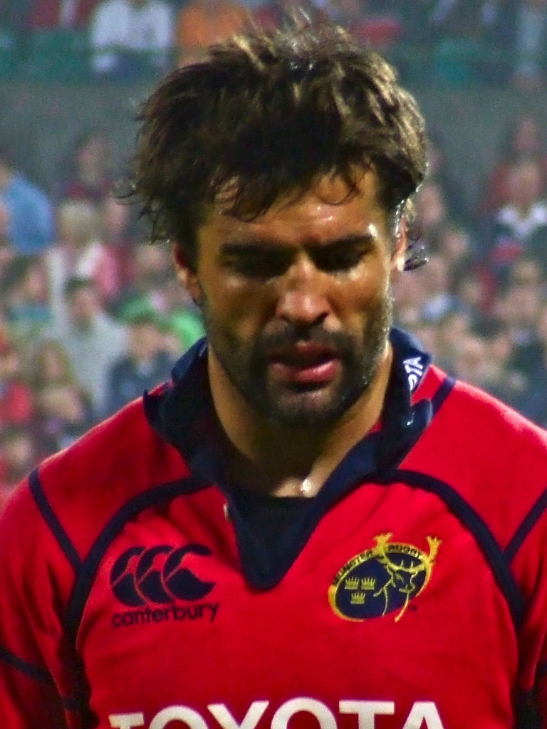 Irish dual code international rugby player Brian Carney, here with Munster Rugby's jersey